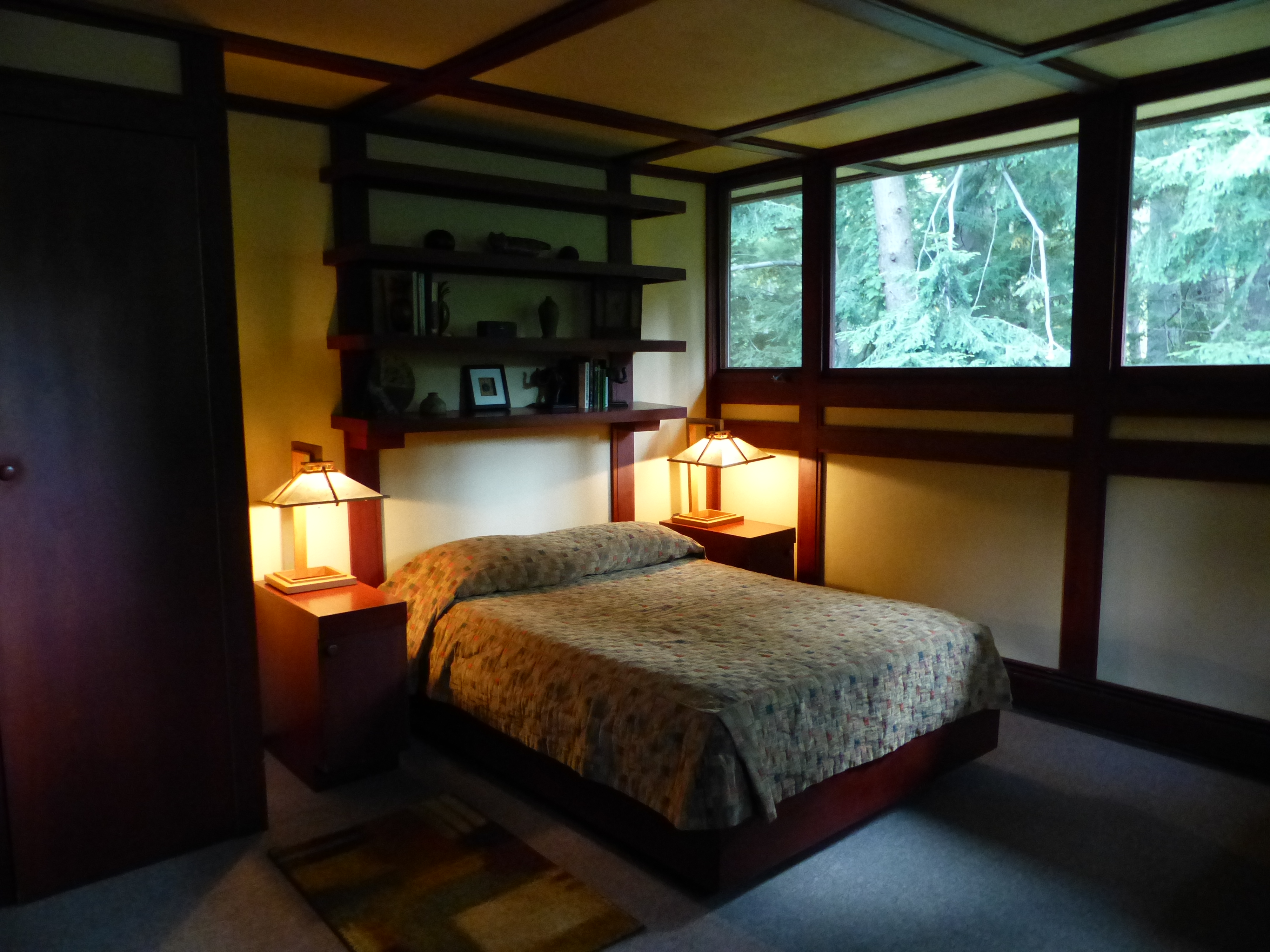 bed and shelves